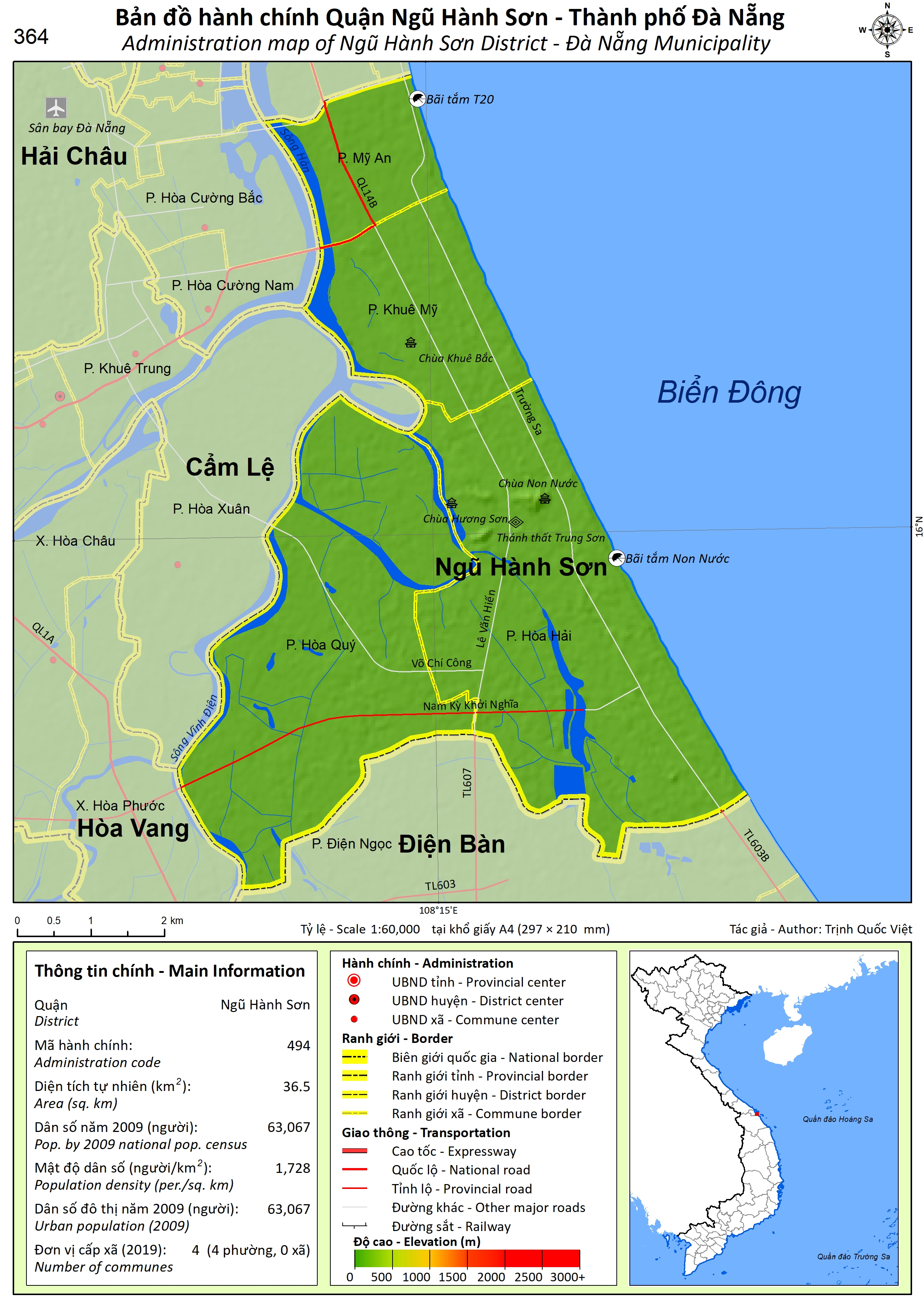 Administration map of Ngu Hanh Son District, Danang City Аҧсшәа: Bản đồ hành chính Quận Ngũ Hành Sơn